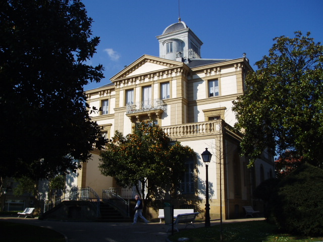 Villa Munda building in Zarautz (Gipuzkoa). Local Conservatory of Music.